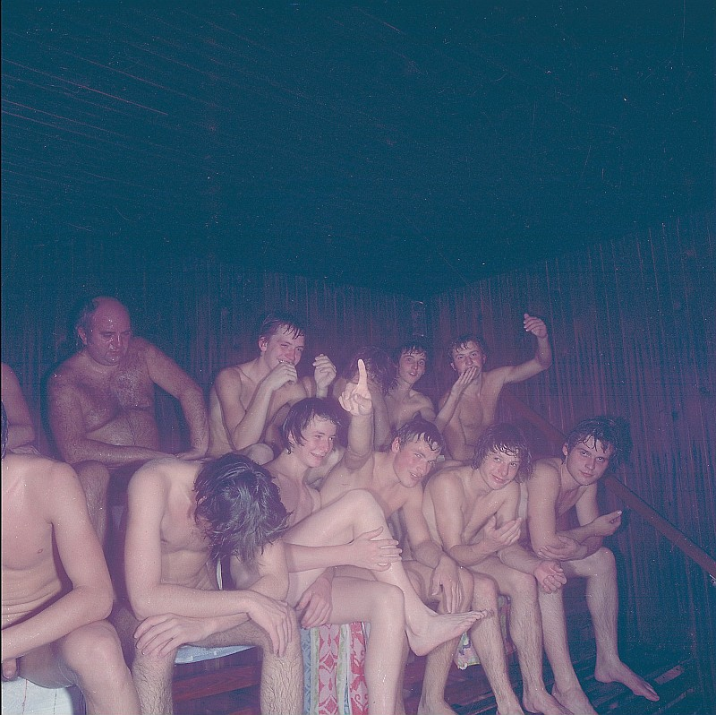 Original image description from the Deutsche Fotothek Sauna